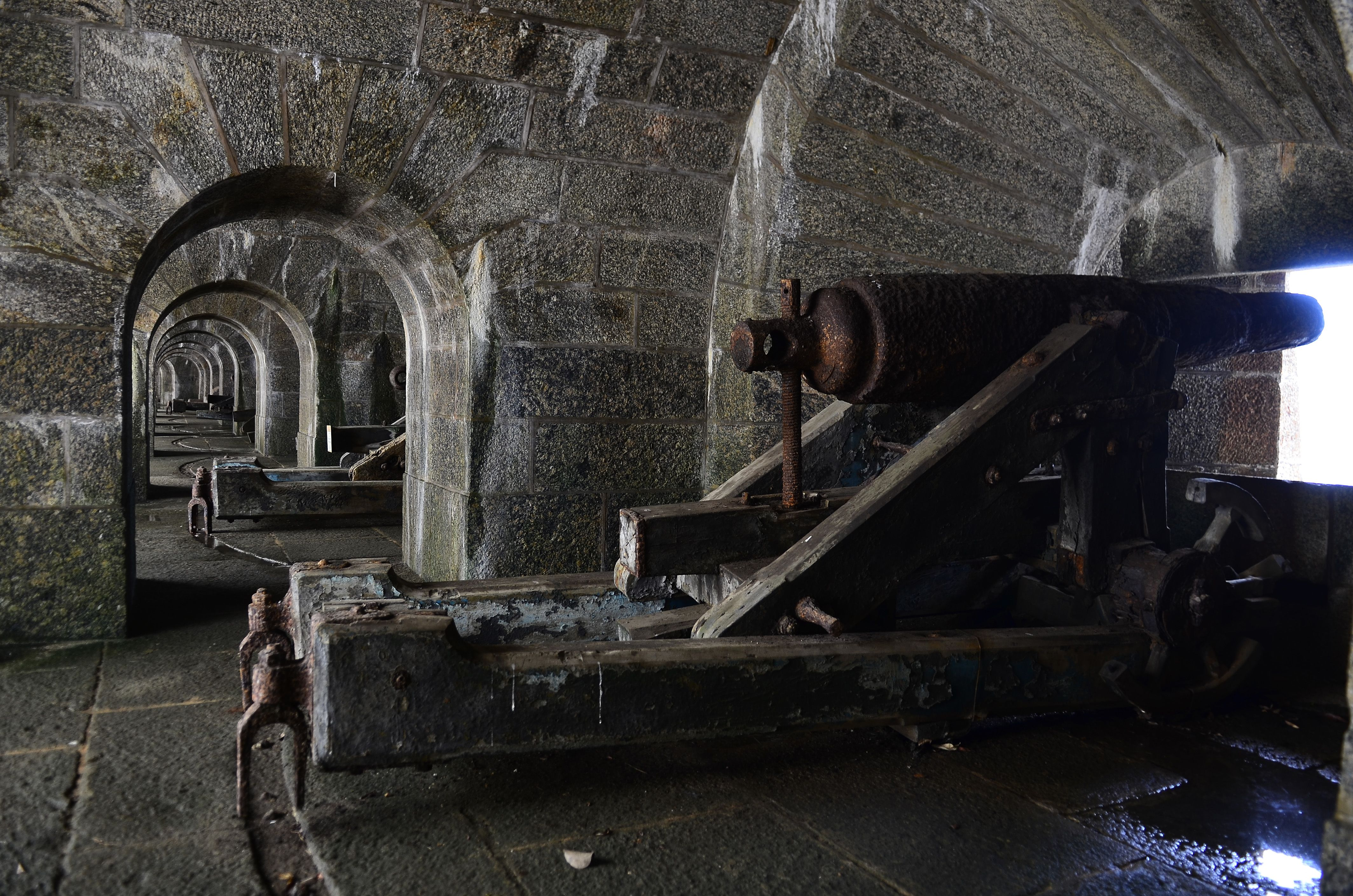 Sao Jose Fortress in Rio de Janeiro. Photo by Tânia Rêgo/Agência Brasil ccby3.0